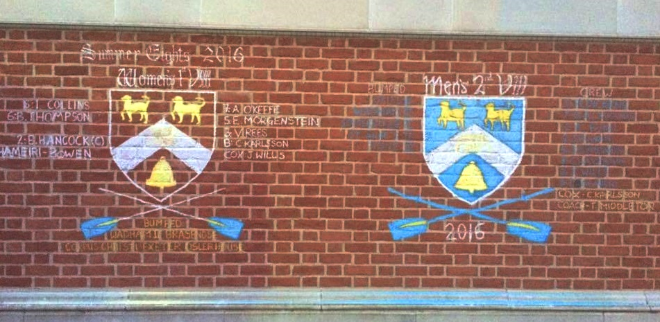 Chalk Arms recording rowing successes at LMH